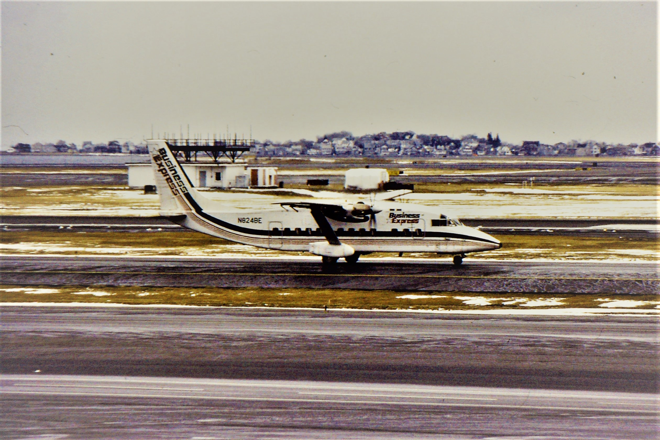 A horrible winter's day that was forecast to worsen with a snowstorm. The flights still managed to arrive, as this basic feeder for the Delta netowrk at BOS shows.